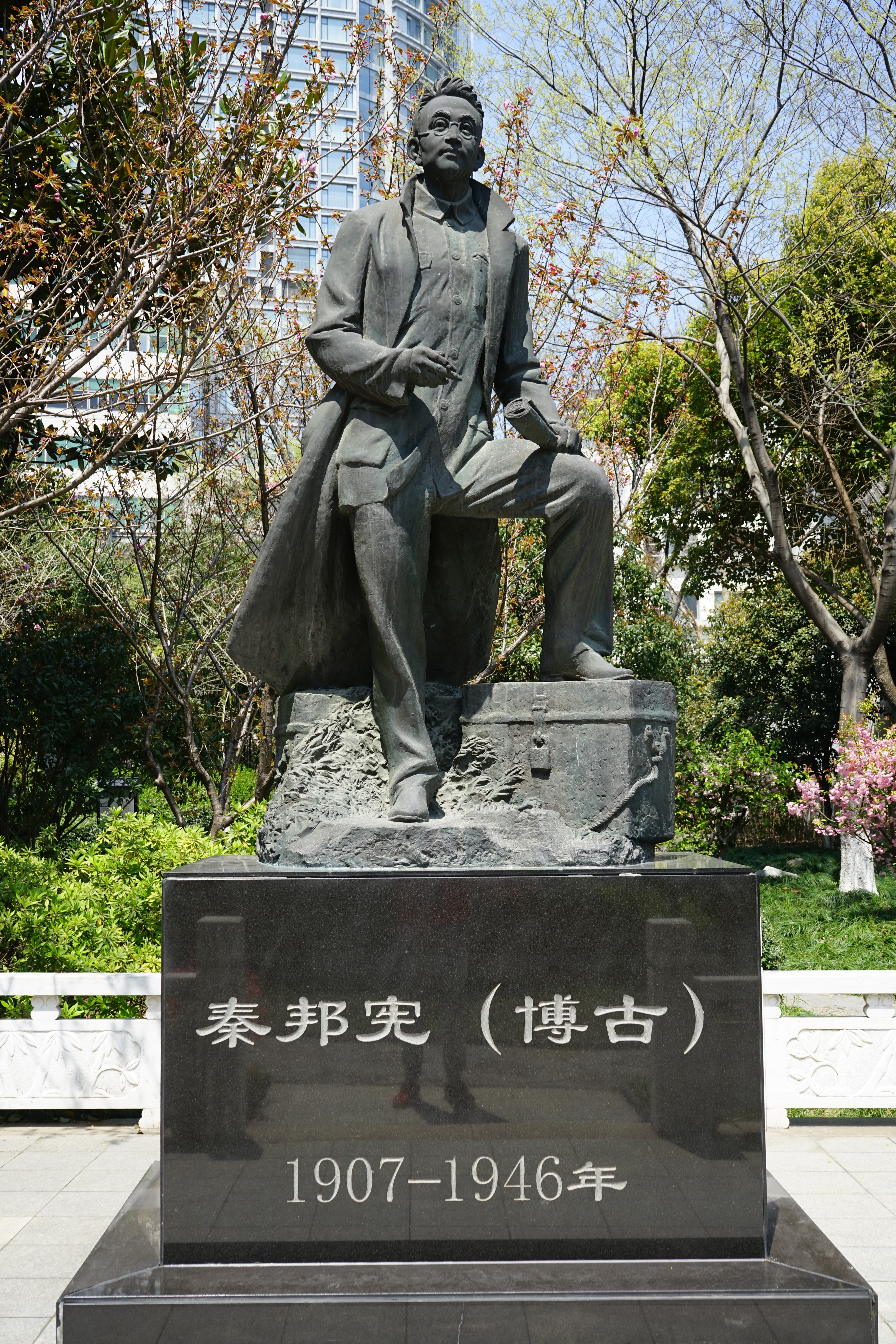 Statue of Bo Gu. Former Residence of Qin Bangxian.